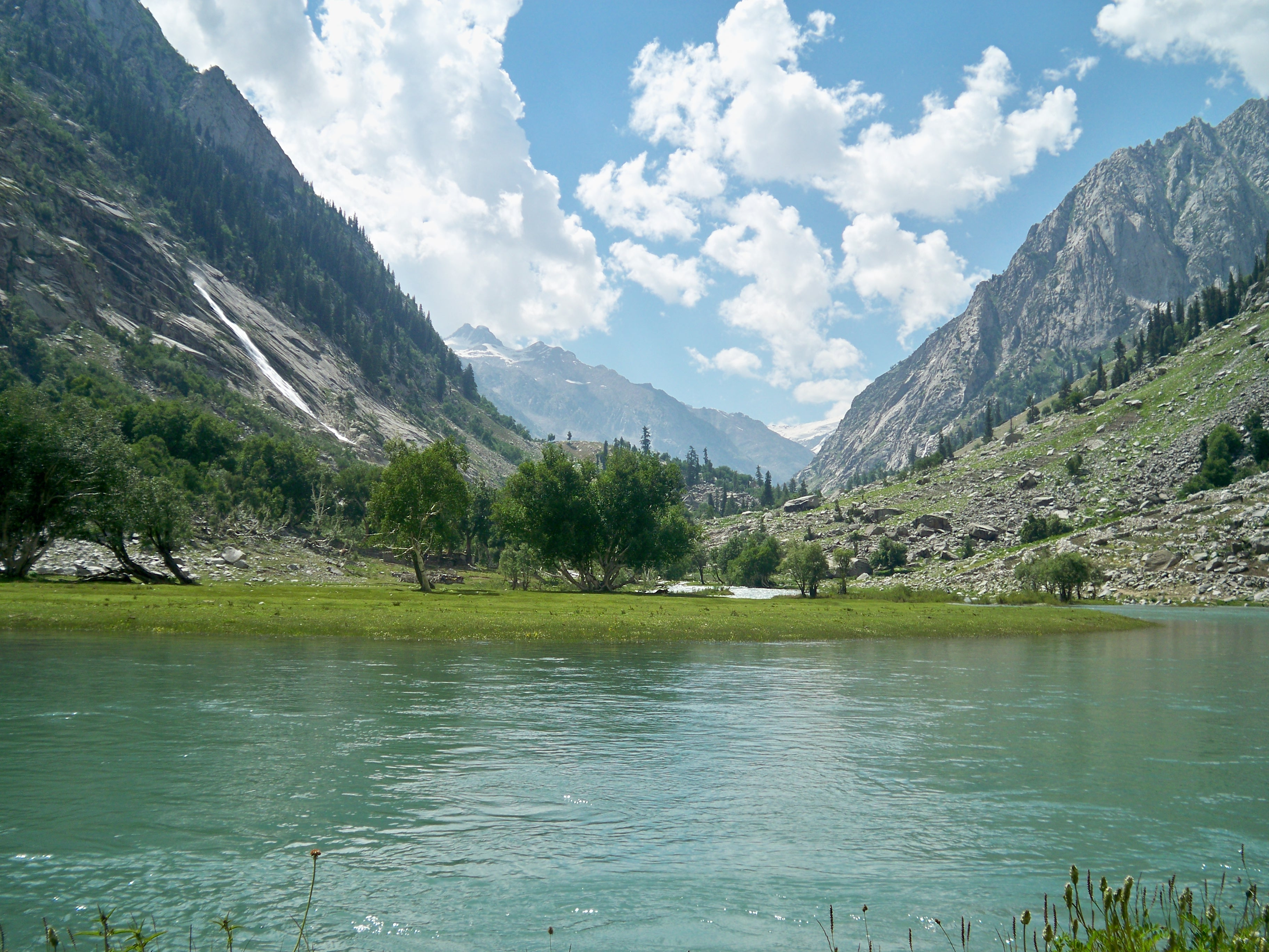 Pari (or Kundol?) Lake "Swat Valley", Pakistan